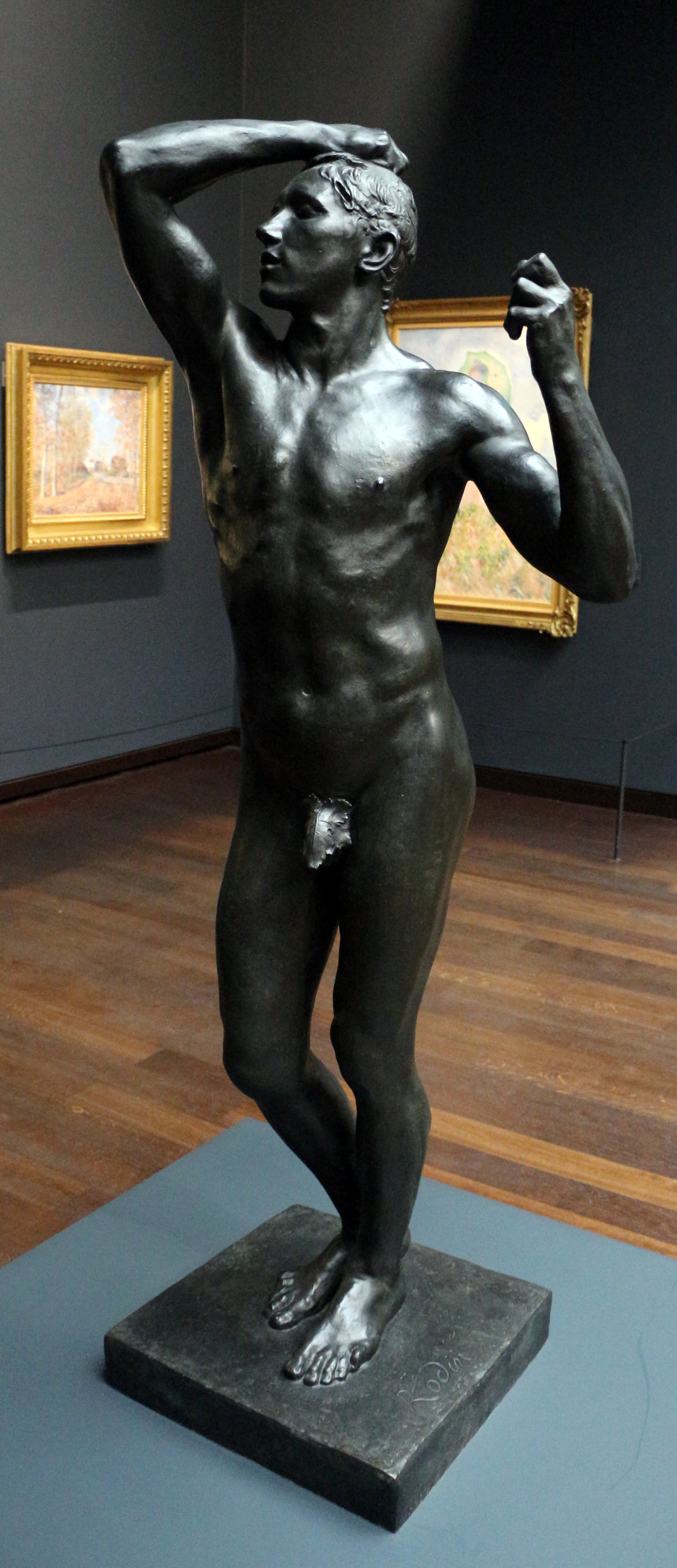 Sculptures by Auguste Rodin in the Musée d'Orsay